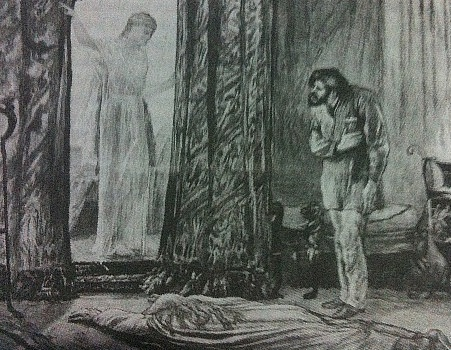 Illustration 13 from the Graphic magazine serialisation of H. R. Haggard's She. The picture is of She drawing back the curtain to reveal herself to Holly.